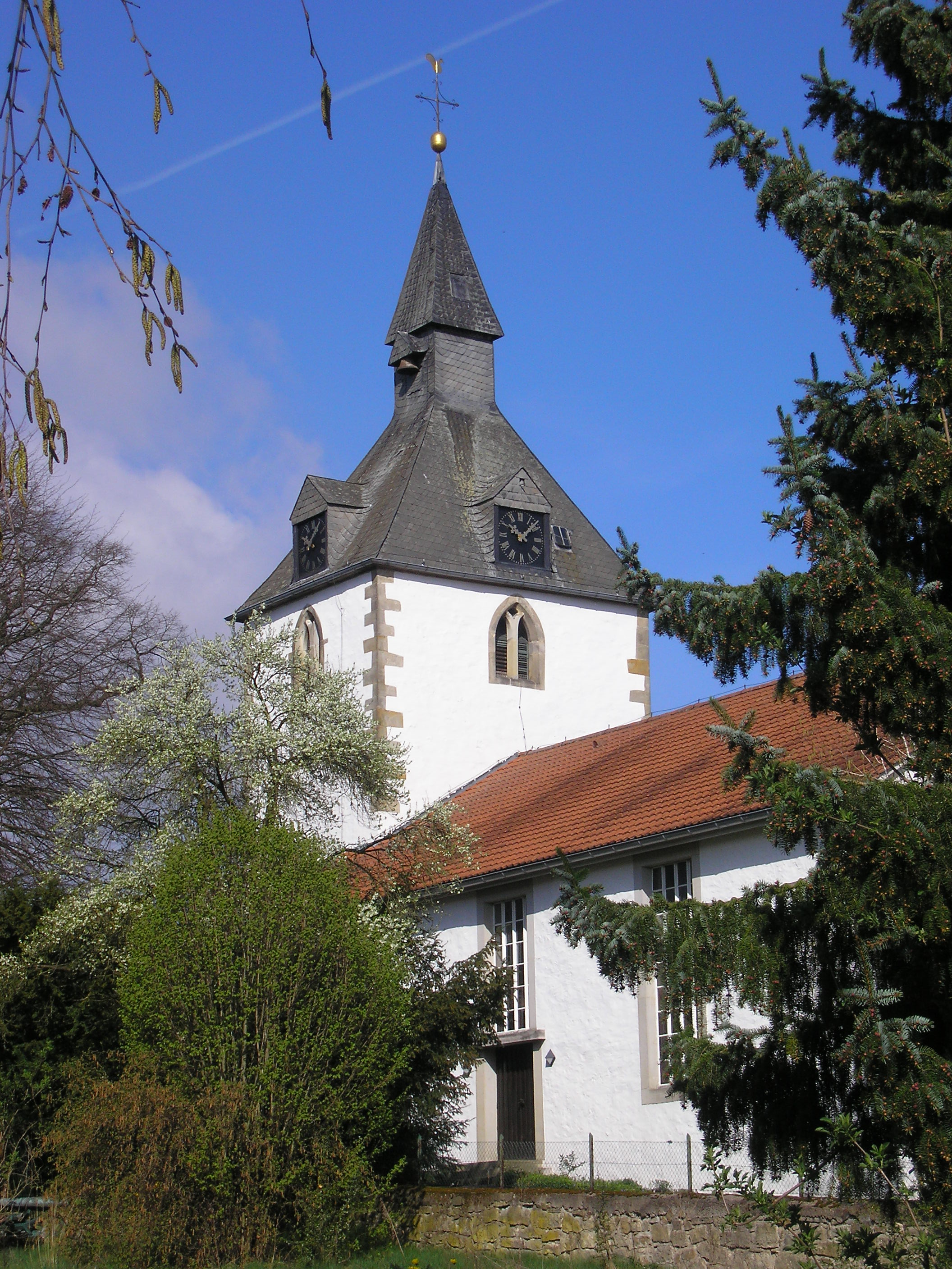 Church of Silixen